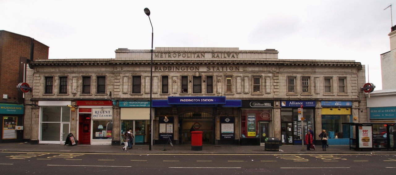 Praed Street front of London Underground District and Circle lines station